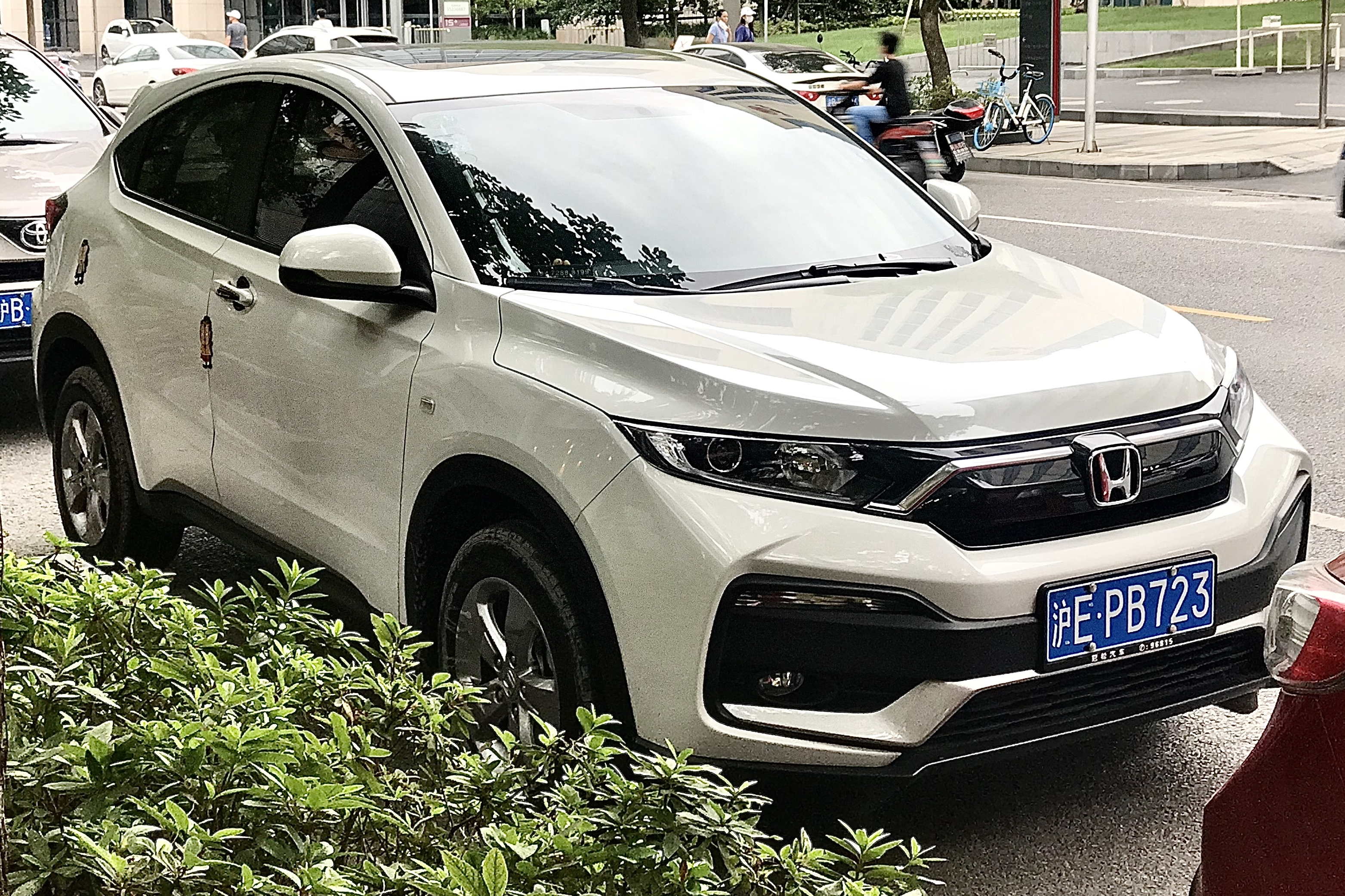 Honda XR-V 2020 facelift